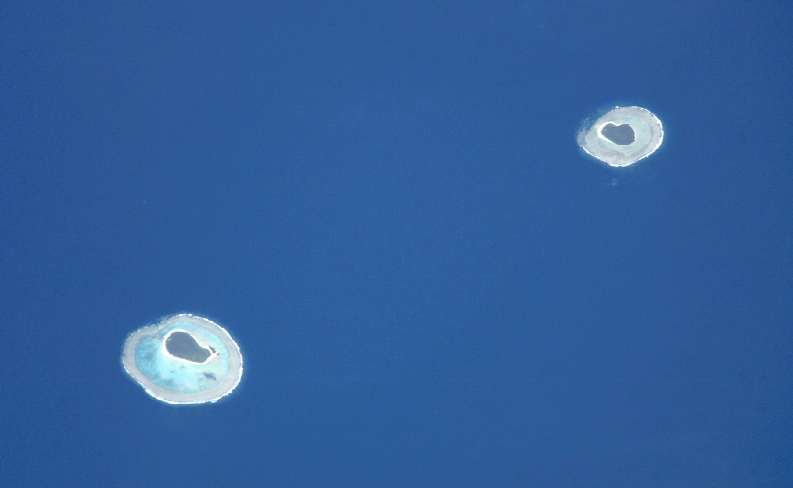 NASA astronaut image of Tuvana-i-Ra (left) and Tuvana-i-Colo (right), two small and uninhabited atolls in the Lau Archipelago in Fiji